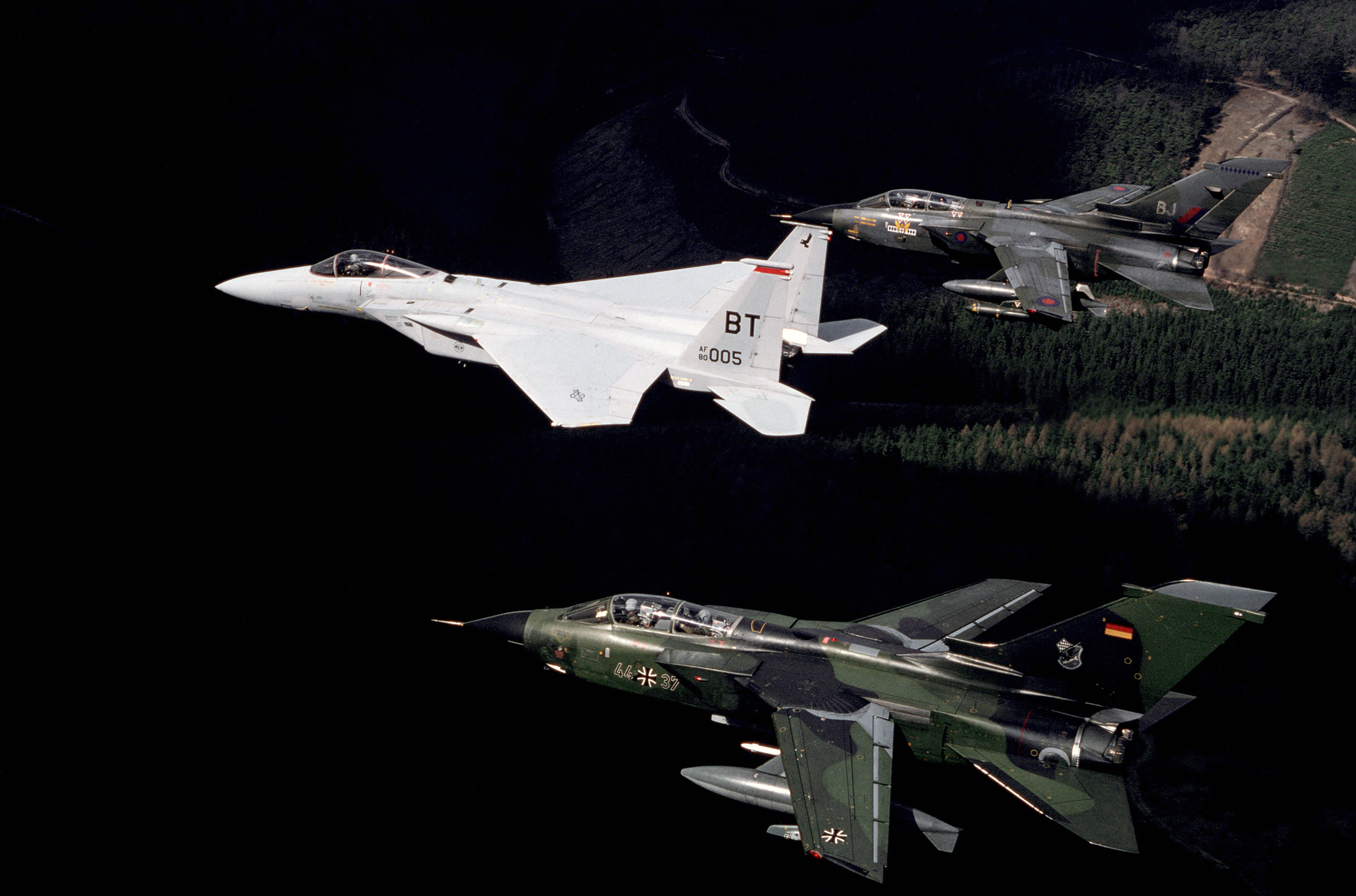 A Boeing F-15C Eagle flying over Germany with two Panavia Tornado IDS on 6 Apr 1987. The U.S. Air Force F-15C-27-MC (s/n 80-0005) was assigned to the 36th Tactical Fighter Wing at Bitburg Air Base, Rheinland-Pfalz (Germany). The right-hand Tornado belonged to No. 14 Squadron, Royal Air Force Germany, based at RAF Brüggen, Nordrhein-Westfalen (Germany), the left-hand Tornado (s/n 44+37) was from the (then West-) German Luftwaffe Jagdbombergeschwader 32 (JaboG 32) (32nd Fighter-Bomber Wing) at Lechfeld, Bayern (Germany). These aircraft were part of a larger, 15-aircraft formation taking part in an aerial review for departing General Charles L. Donnelly Jr., commander in chief, U.S. Air Force, Europe (USAFE) and commander, Allied Air Forces Central Europe.